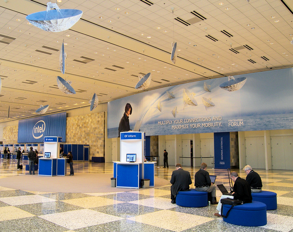 The fall 2007 Intel Developer Forum at Moscone West, San Francisco, California, United States.